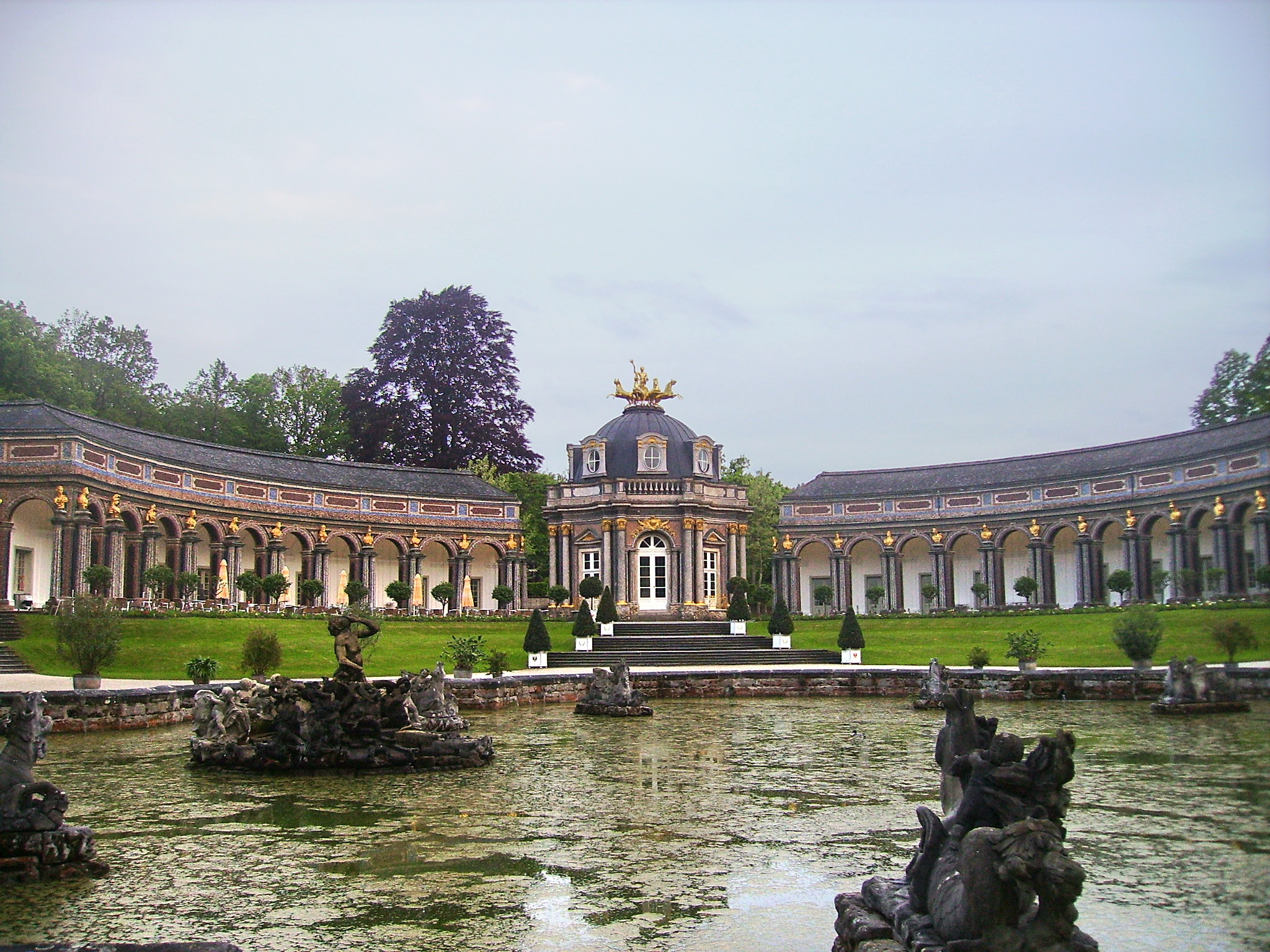 New Palace of the Hermitage, Bayreuth